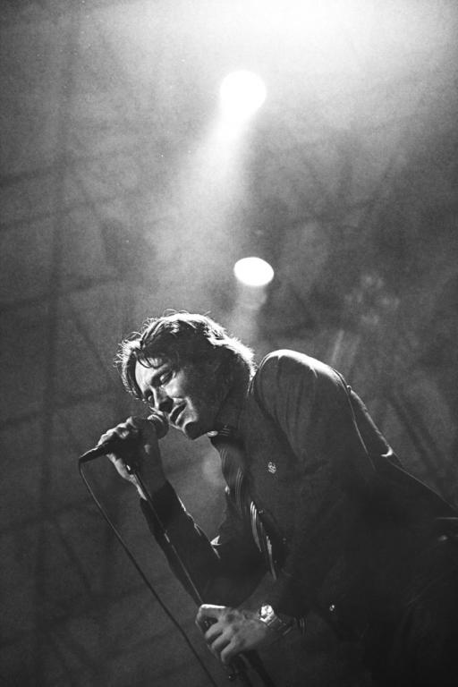 Vallu Lukka